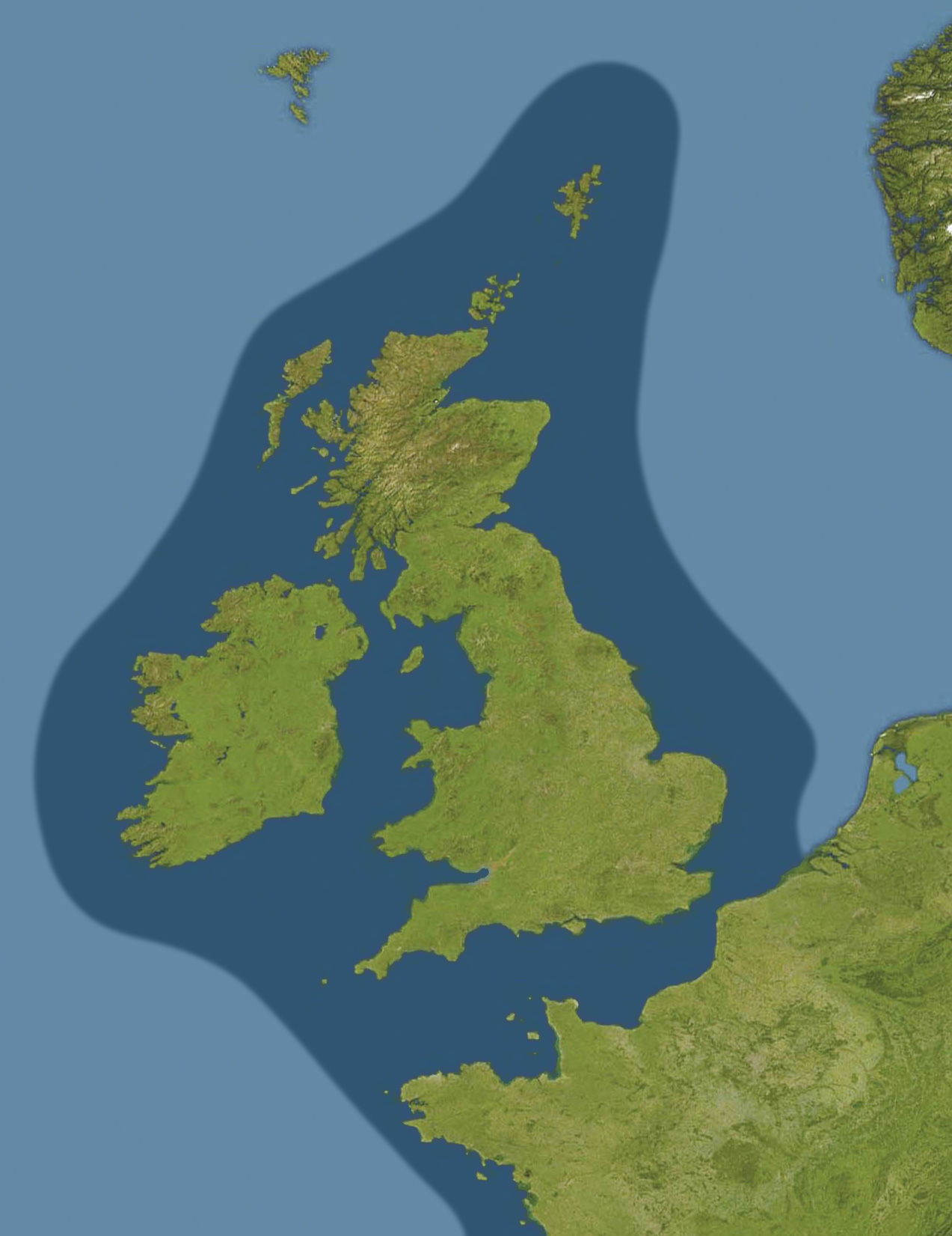 Map showing submarine warfare zone around the United Kingdom, declared by Germany on February 18 1915.